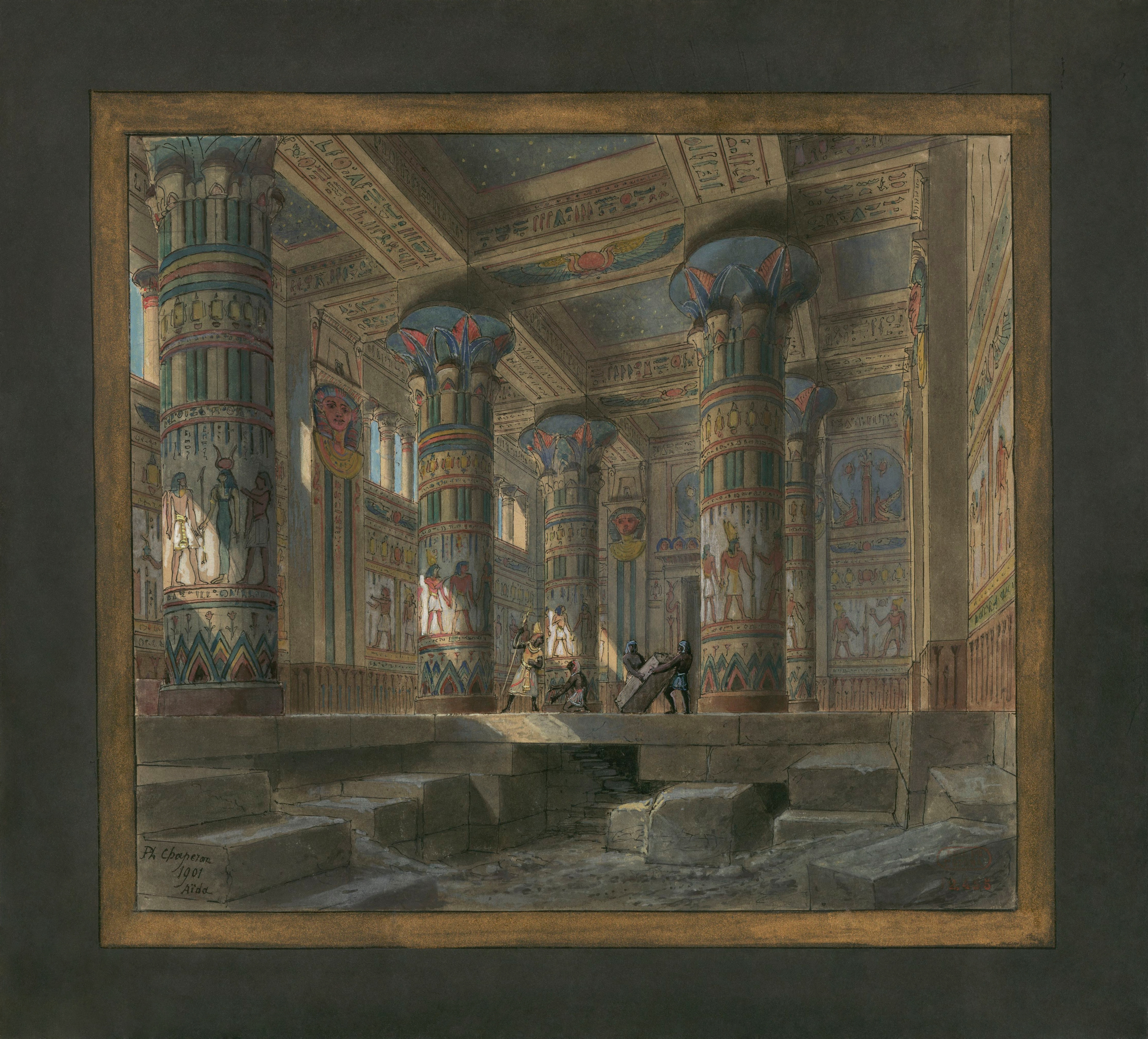 Set design for Act 4, scene 2 of Giuseppe Verdi's opera Aida as performed at the Palais Garnier, Paris in 1880